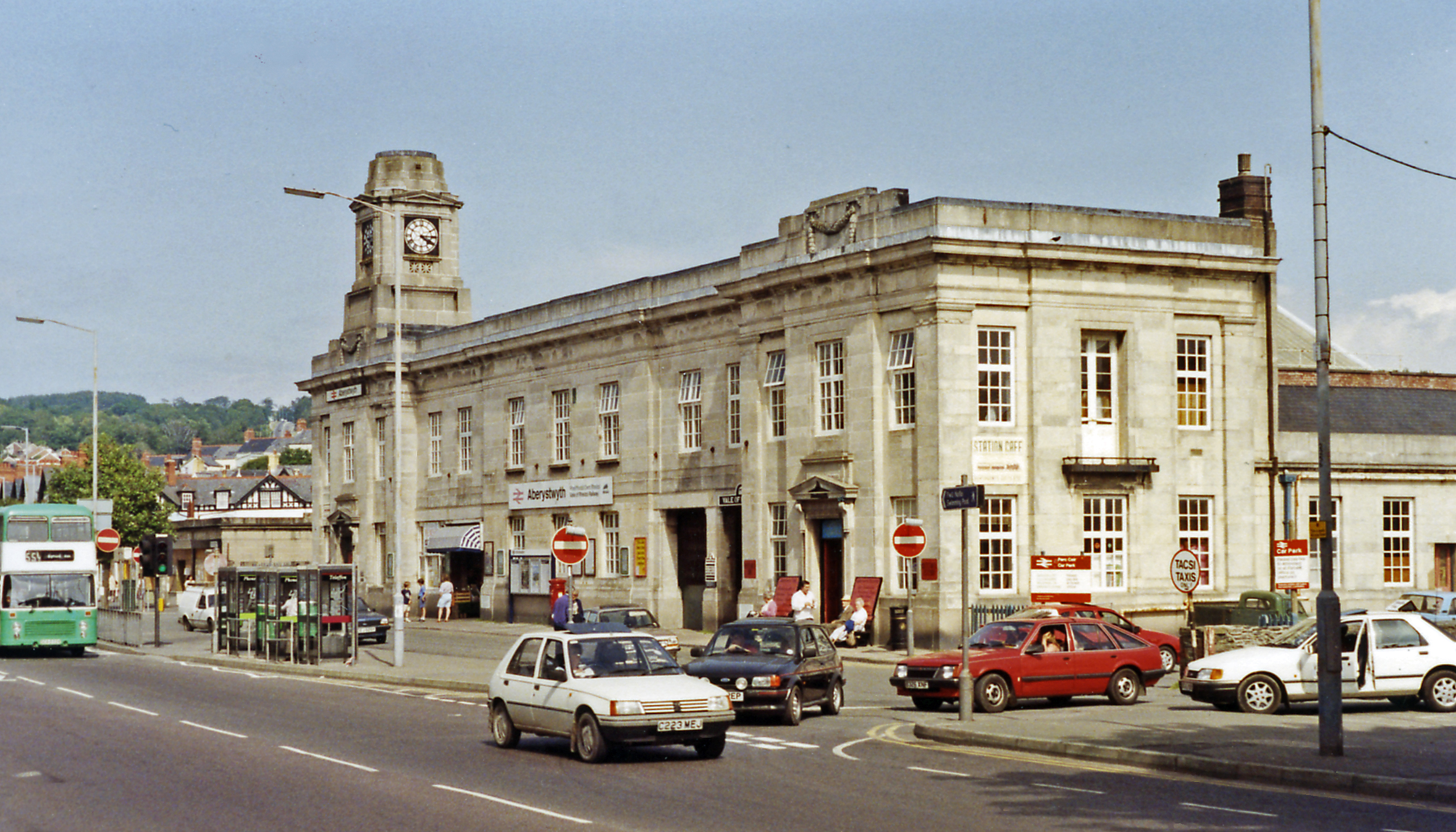 Aberystwyth station, main exterior. An imposing structure as rebuilt by the GWR in 1925. The view is NE on Mill Street in the middle of the town. It is the terminus of the ex-Cambrian Railway (later GWR) main line from Whitchurch (closed 14/6/65) and Shrewsbury via Welshpool and Machynlleth and formerly of the GWR line from Carmarthen (closed 2/2/65). The narrow-gauge Vale of Rheidol line to Devil's Bridge, former GWR now privately owne, also terminates here.